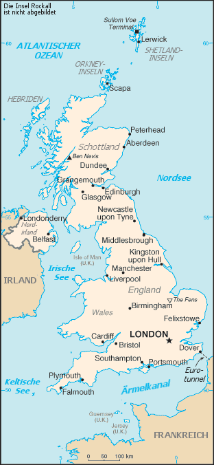 Map of the United Kingdom (in German)